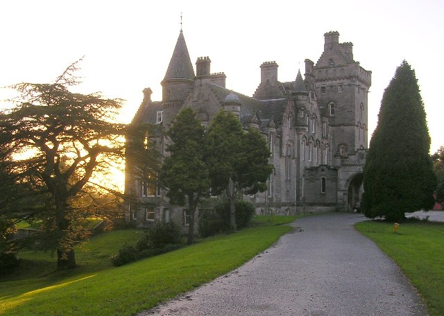 Overtoun House. Overtoun House is an A-listed building maintained by the Christian Centre for "Hope & Healing".